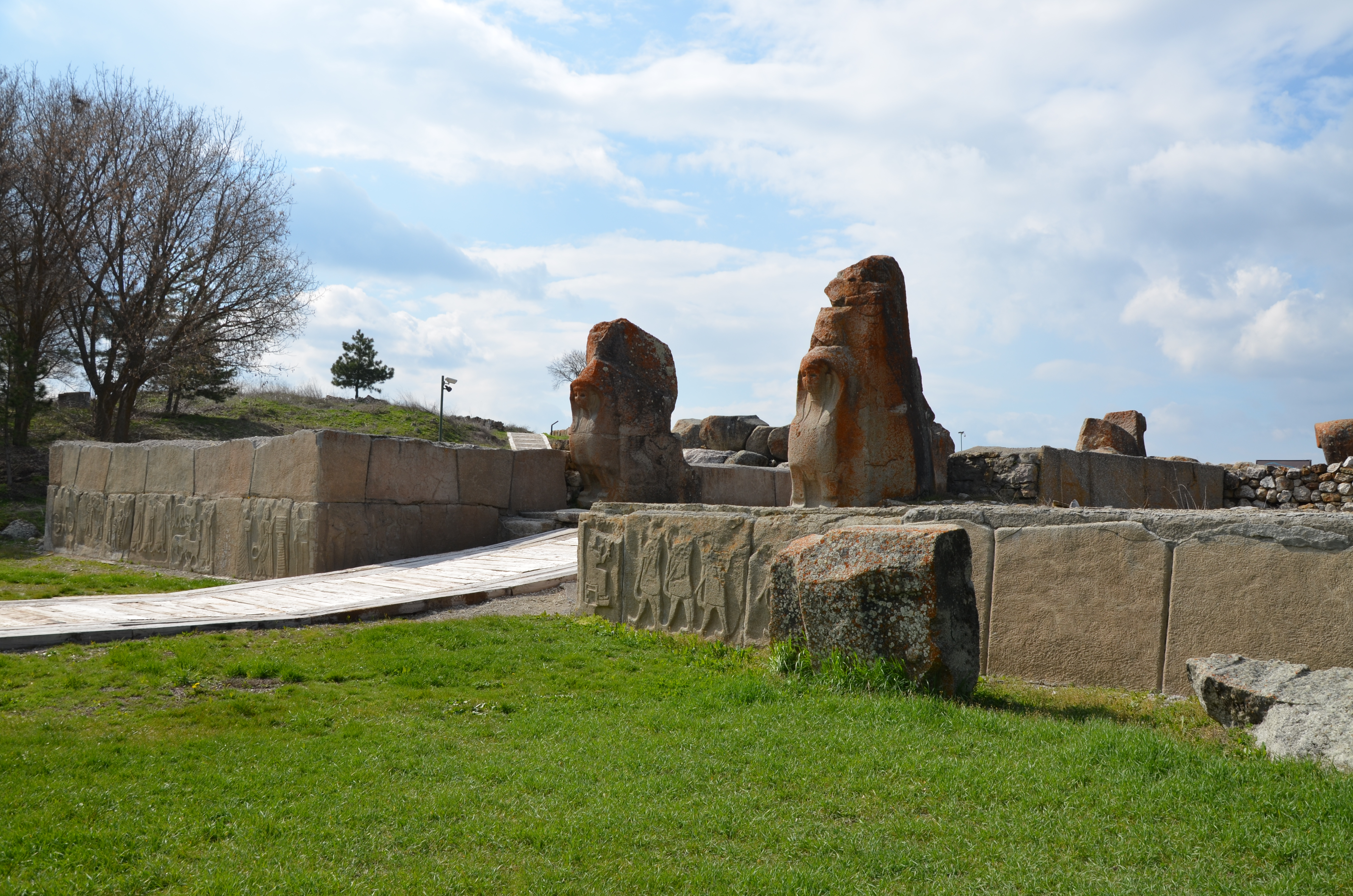 The Sphinx Gate, 14th century BC, Alacahöyük, Turkey Alacahöyük